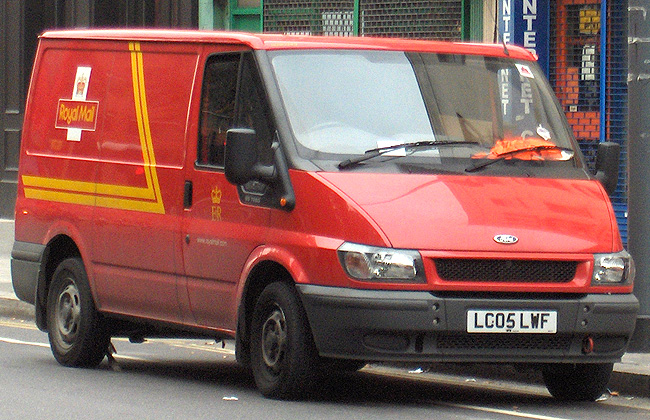 Royal Mail Ford Transit van (September 2006)